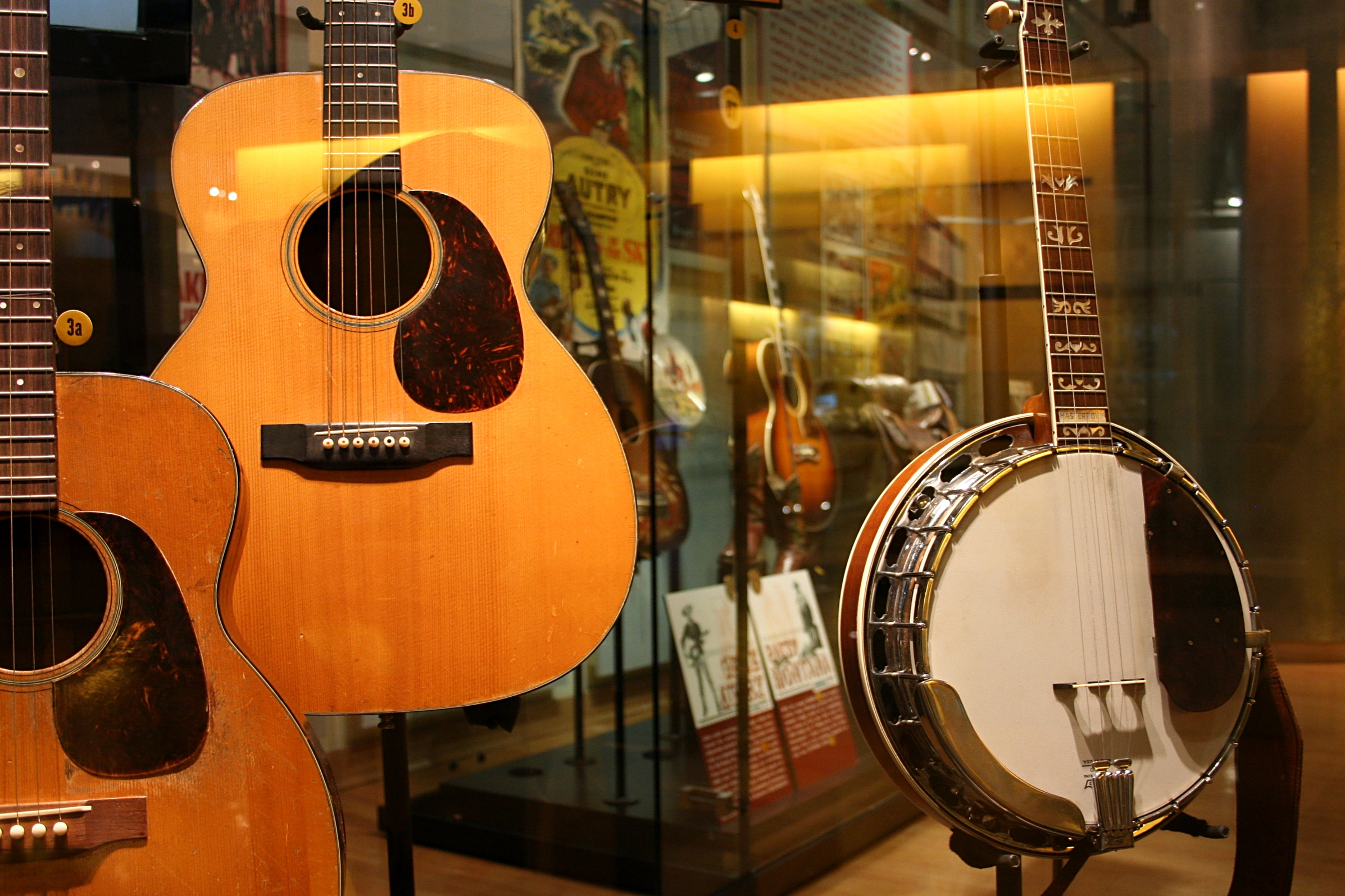 Museum of country music - Nashville 'cause it's been one year already...